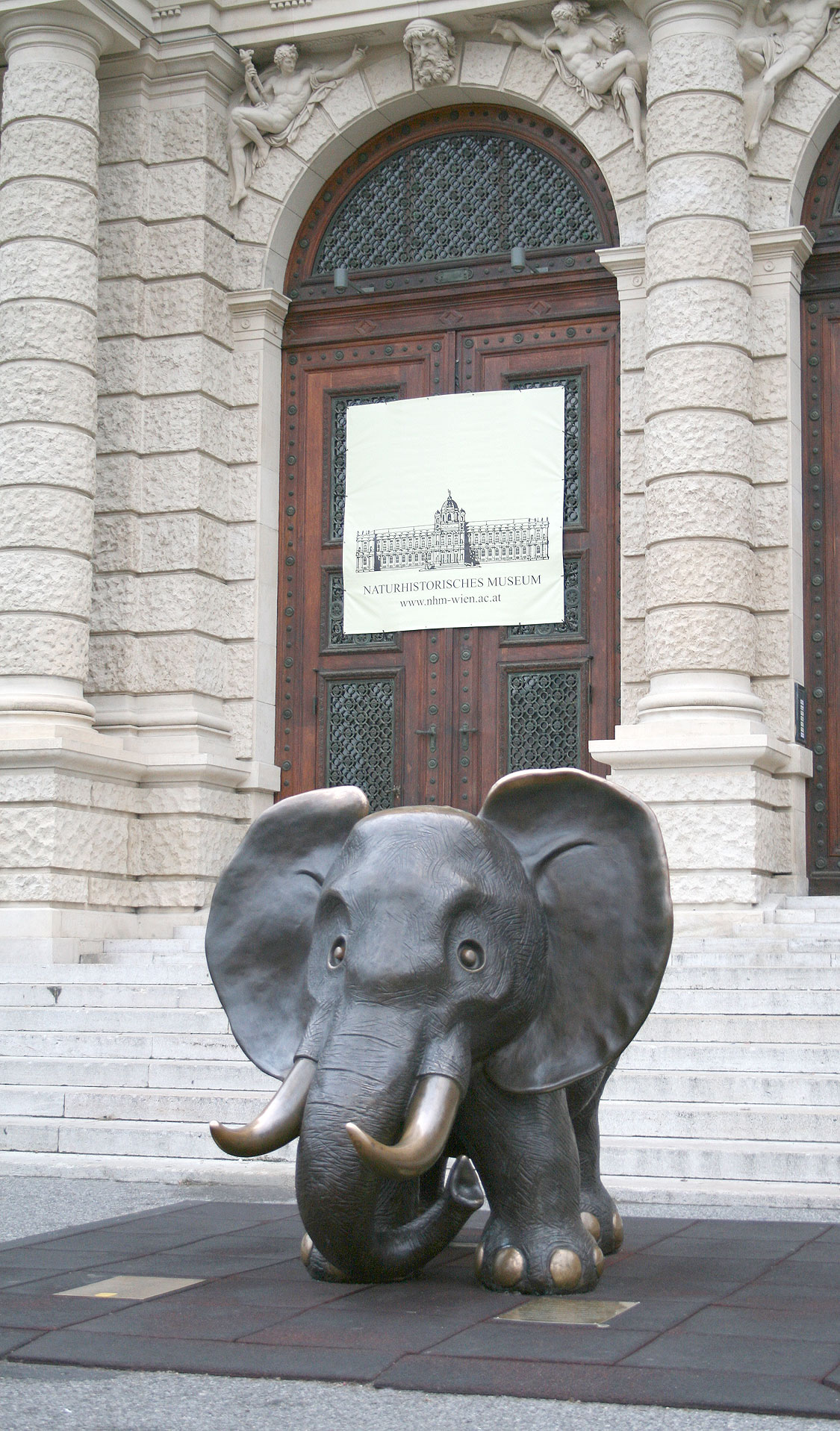 Sculpture of an elephant by Gottfried Kumpf in front of the Museum of Natural History in Vienna